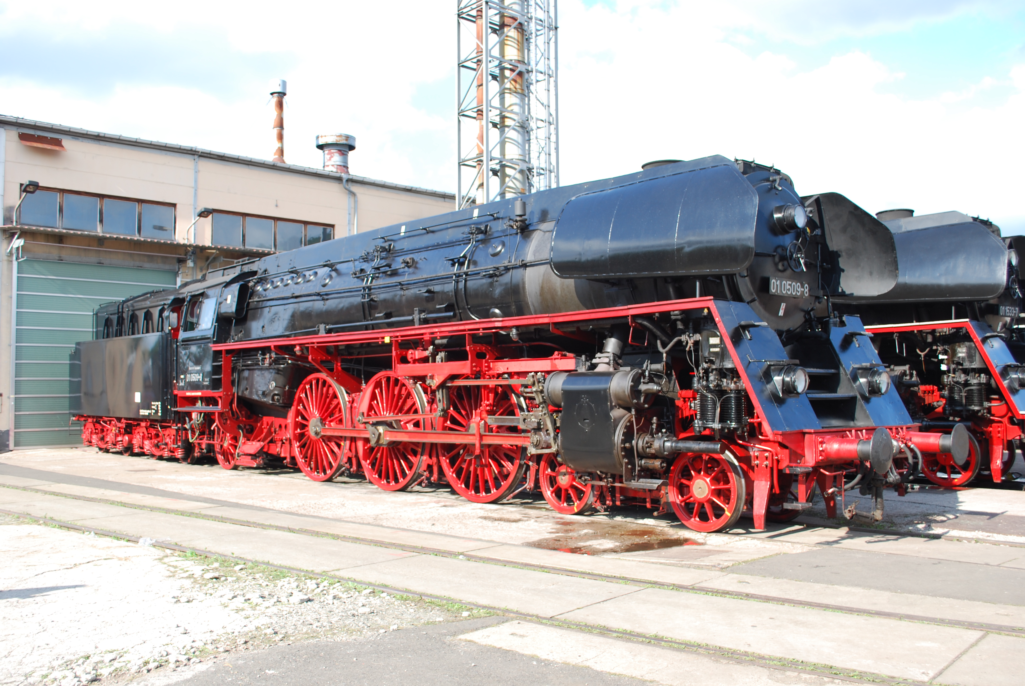 DR Class "01.5" "Rekolok" 01 1509 (ex-01 509; ex-01 143) with 2'2'T34 tender at the Meingen Steam Festival, 09/12. In 1962-65, the DR rebuilt 35 ex-DRG Class "01" 2-cylinder Pacifics (18 as coal burners 1962-64, 17 as oil burners 1964-65; 11 of the coal burners were converted to oil 1965-66) with higher pitched "Reko-1" all-welded boilers with combustion chambers, IfS feed water heaters, tapered Witte smoke deflectors, skyline boiler casing, Trofimoff piston valves, new welded cylinders (except on two) and new welded cab; the first 8 had Boxpok wheels (1 also had a Giesl oblong ejector) but these had a tendency to crack and were replaced by the spoked variety. They (plus the first few of the later examples) also had side valences but these were later removed. These were some of the finest Pacifics in Europe and their boilers were phenomenal steam raisers (considerably more than the contemporary DB welded boilers in West Germany). The last was withdrawn in 1989.